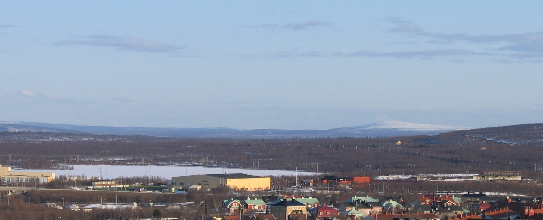 Ala Lombolo and Šišká seen from the roof of Skyttegatan 20A, Vilan, Kiruna, student housing on the evening of 22 May 2008.